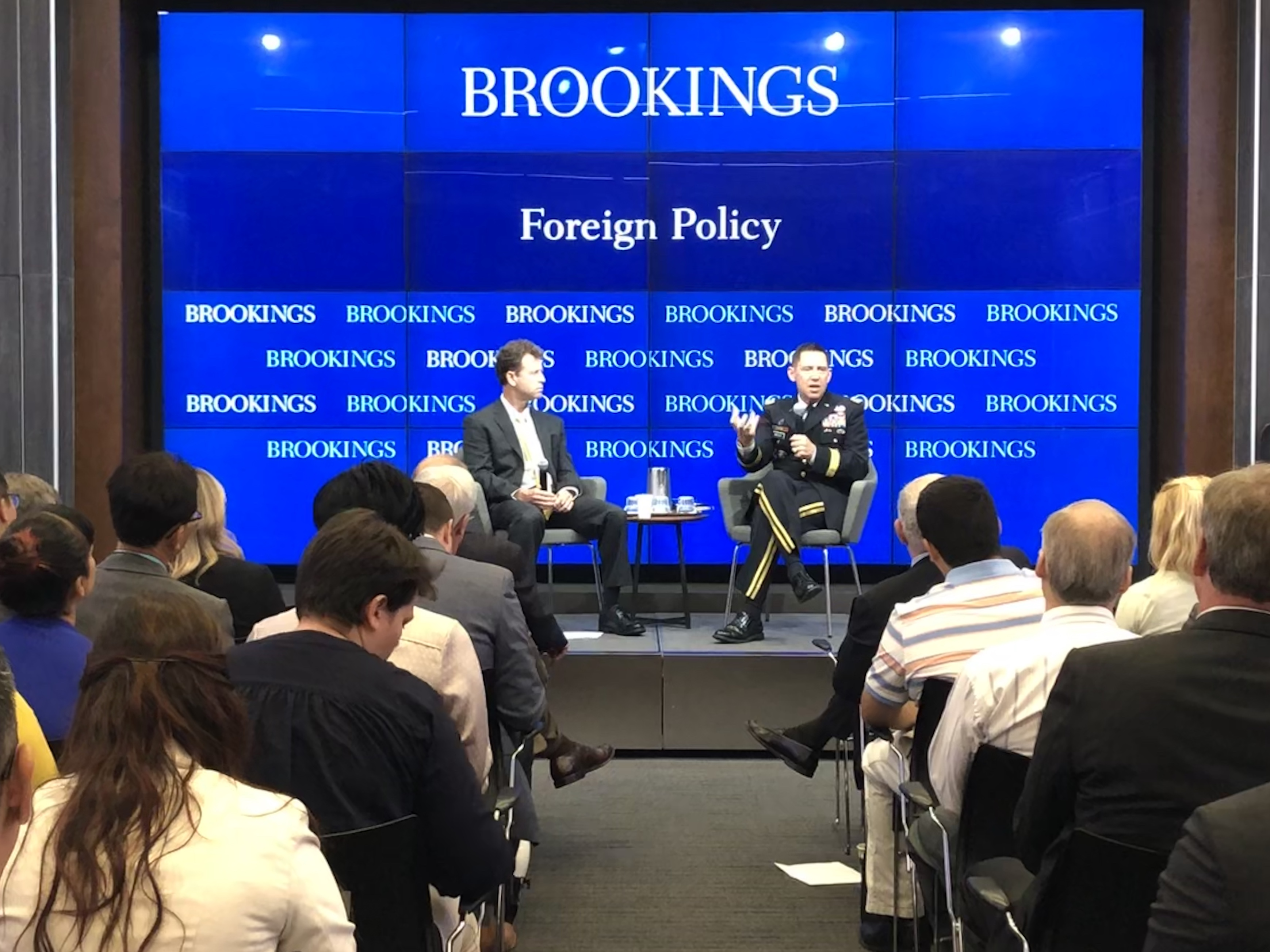 U.S. Army Lt. Gen. Eric J. Wesley speaking with Brookings Institute foreign policy expert and fellow Michael E. O'Hanlon on Sept. 24, 2019, about the modernization of the U.S. Army, how to implement future concepts and ideas, and the multi-domain operations concept.